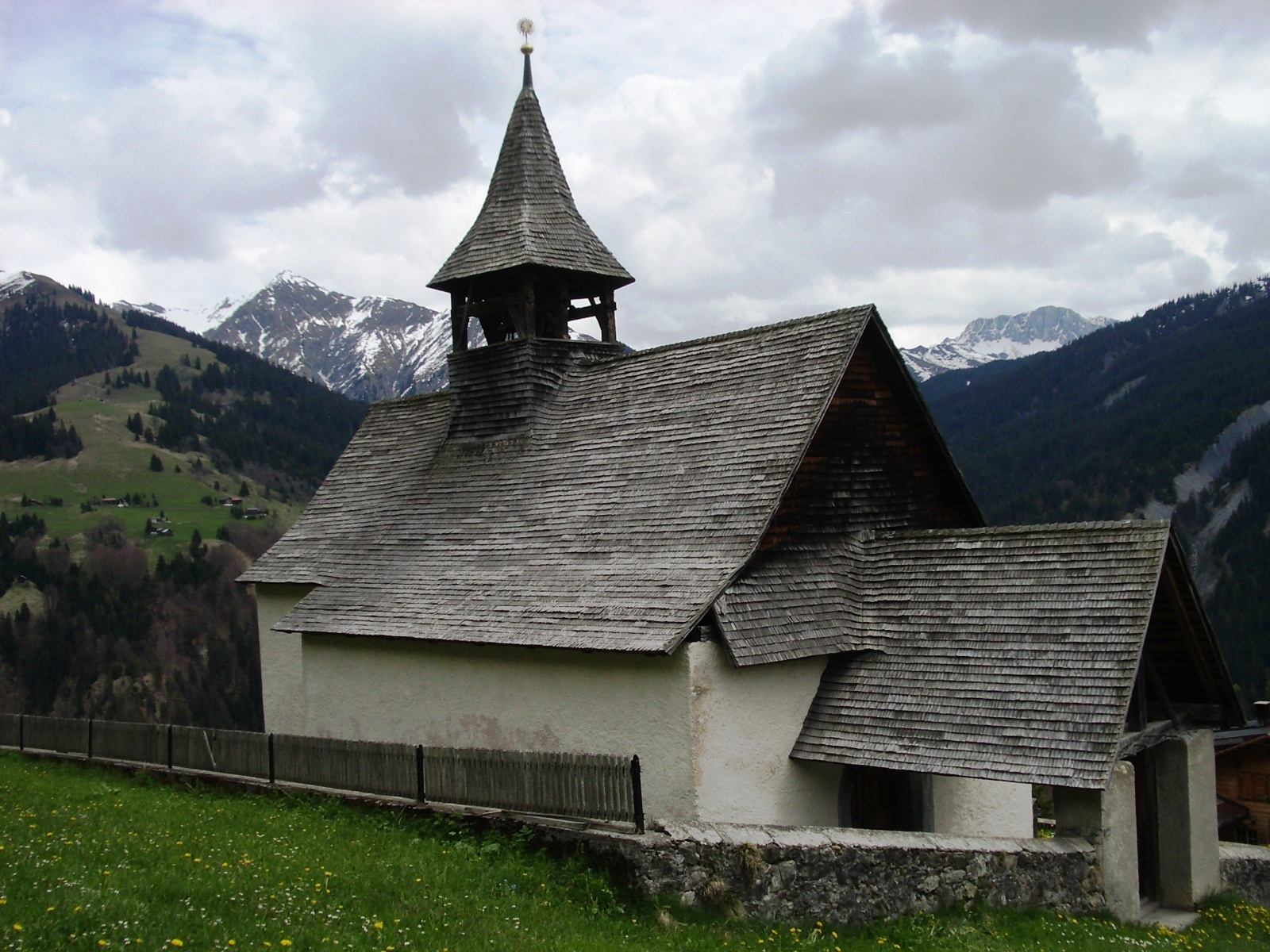 Saint Anna Chapel, Schuders GR, Switzerland